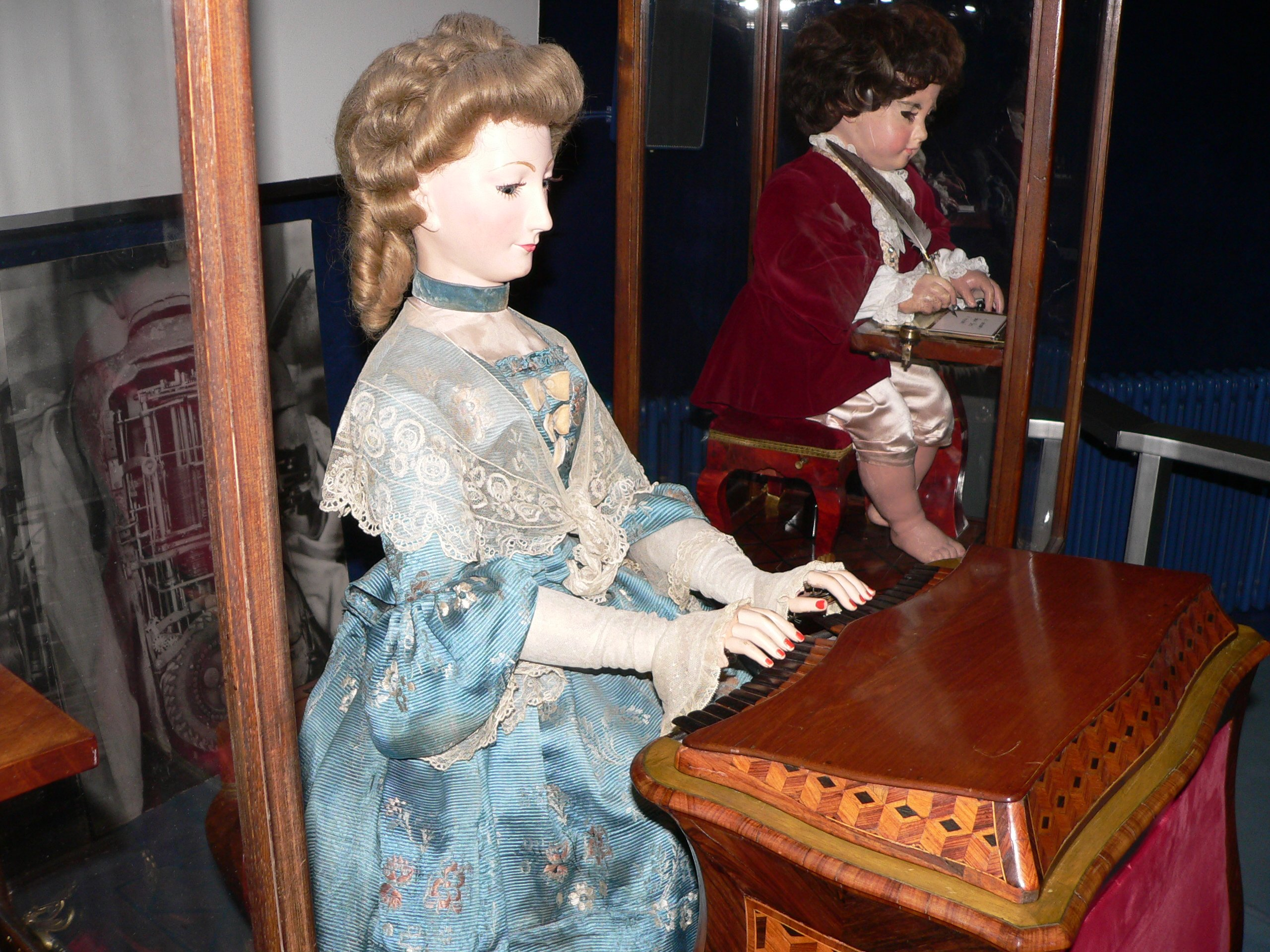 Jaquet-Droz automata, mus�e d'Art et d'Histoire de Neuch�tel